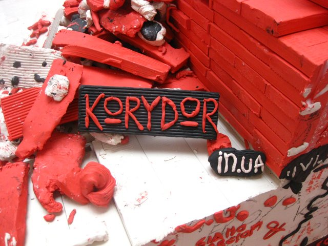 Emblem of the Korydor Art Project